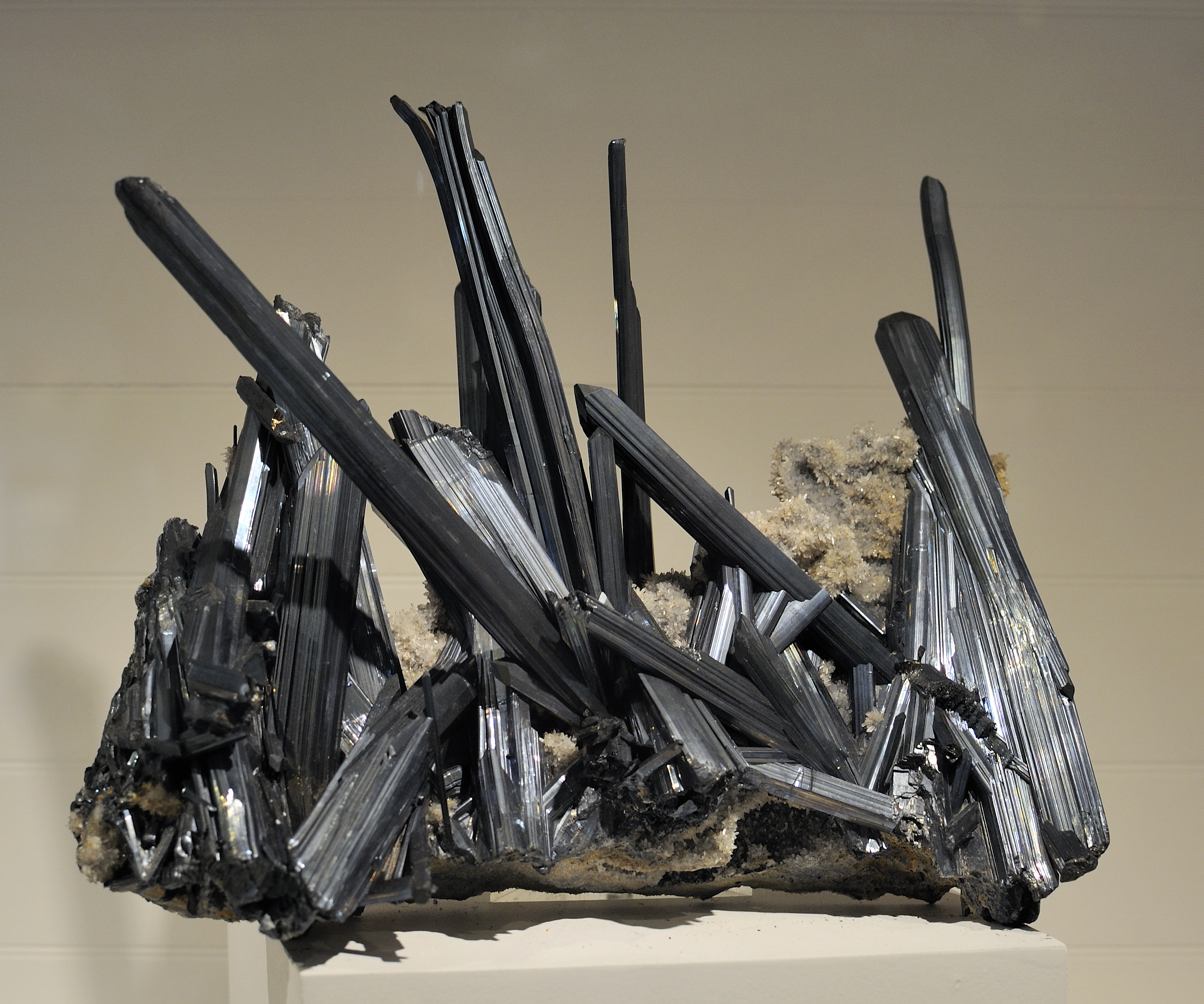 Harvard Museum of Natural History. Stibnite. (Iyo) Ehime, Shikoku, Japan.